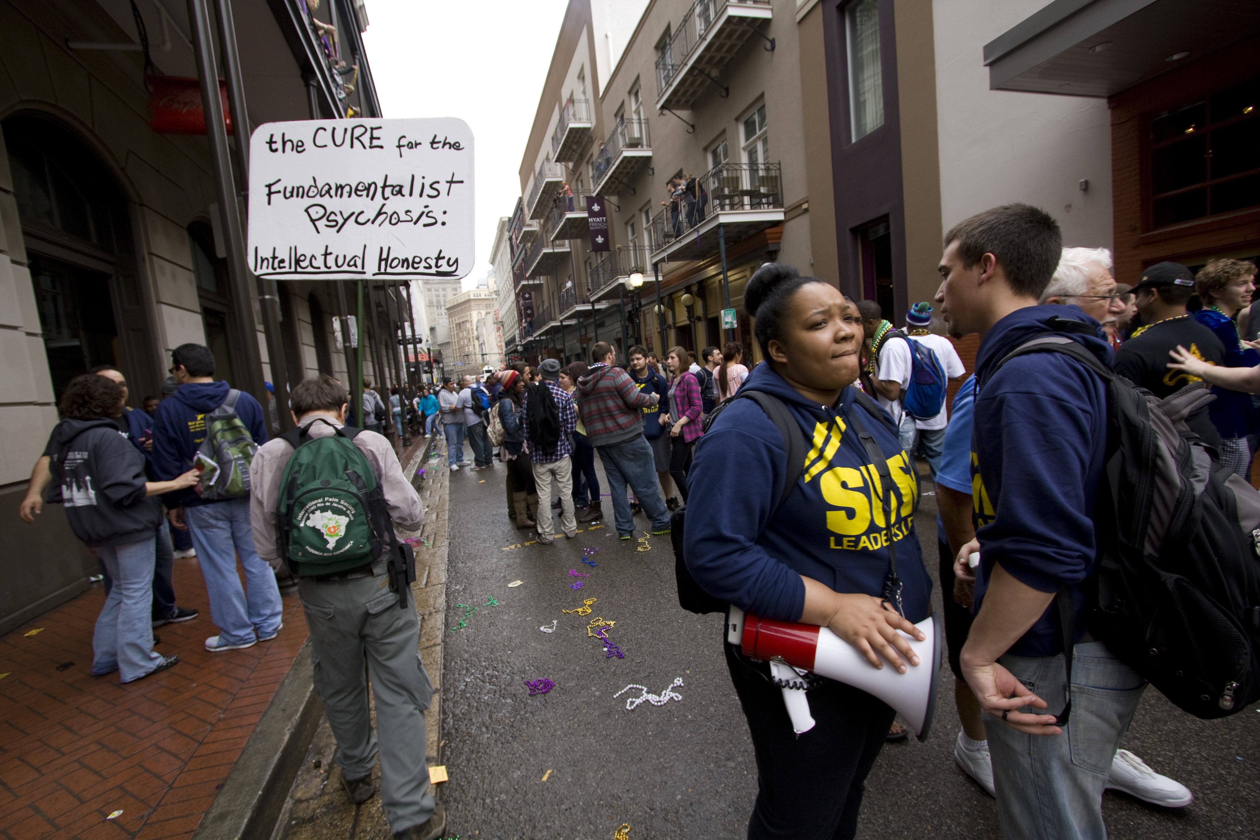 Mardi Gras on Bourbon Street, French Quarter of New Orleans. Man has sign reading "The CURE for the Fundamentalist Psychosis: Intellectual Honesty", a counter protest to the Protestant Fundamentalists who come to the city to protest Mardi Gras.